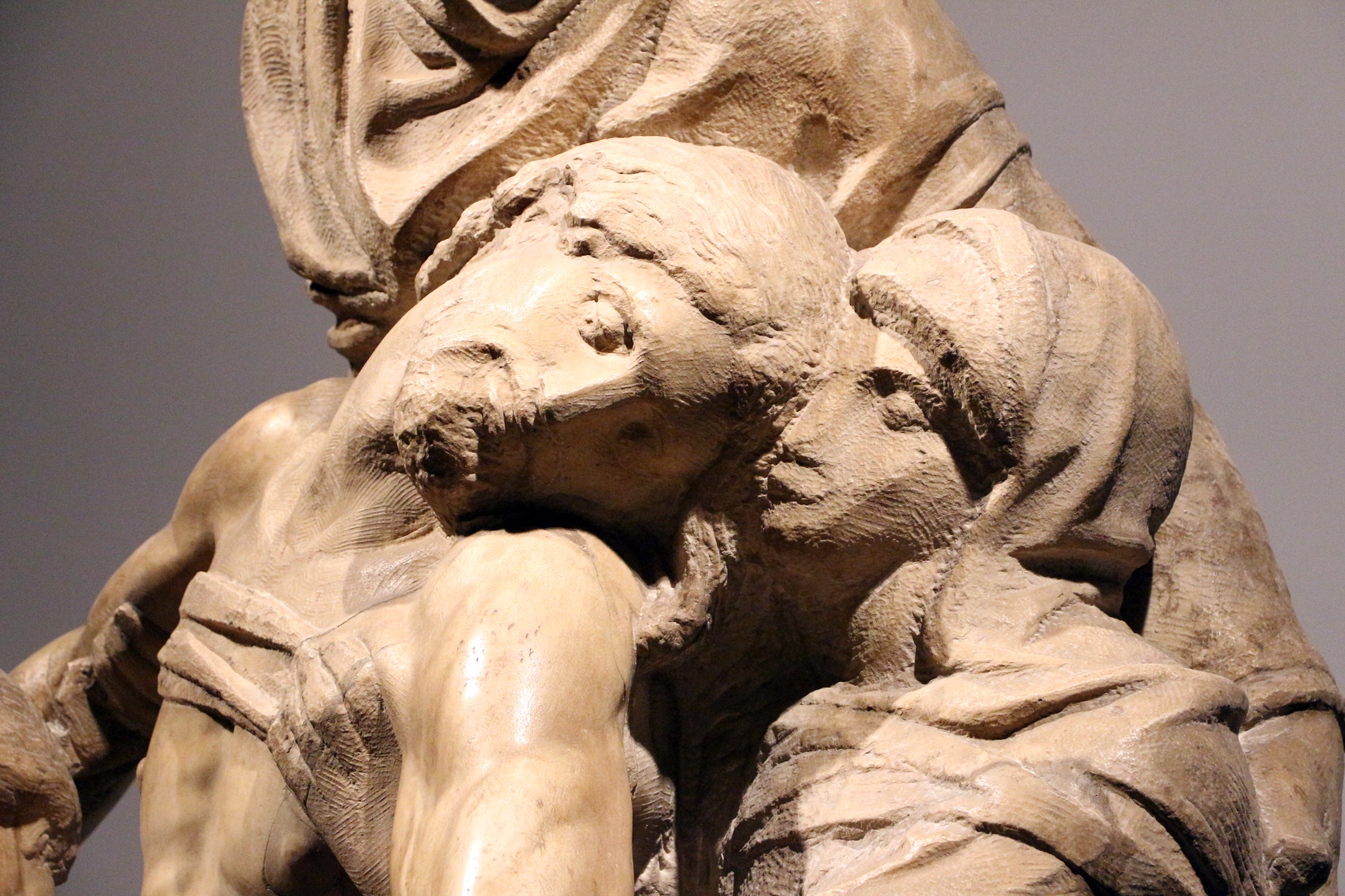 Pietà dell'Opera del Duomo